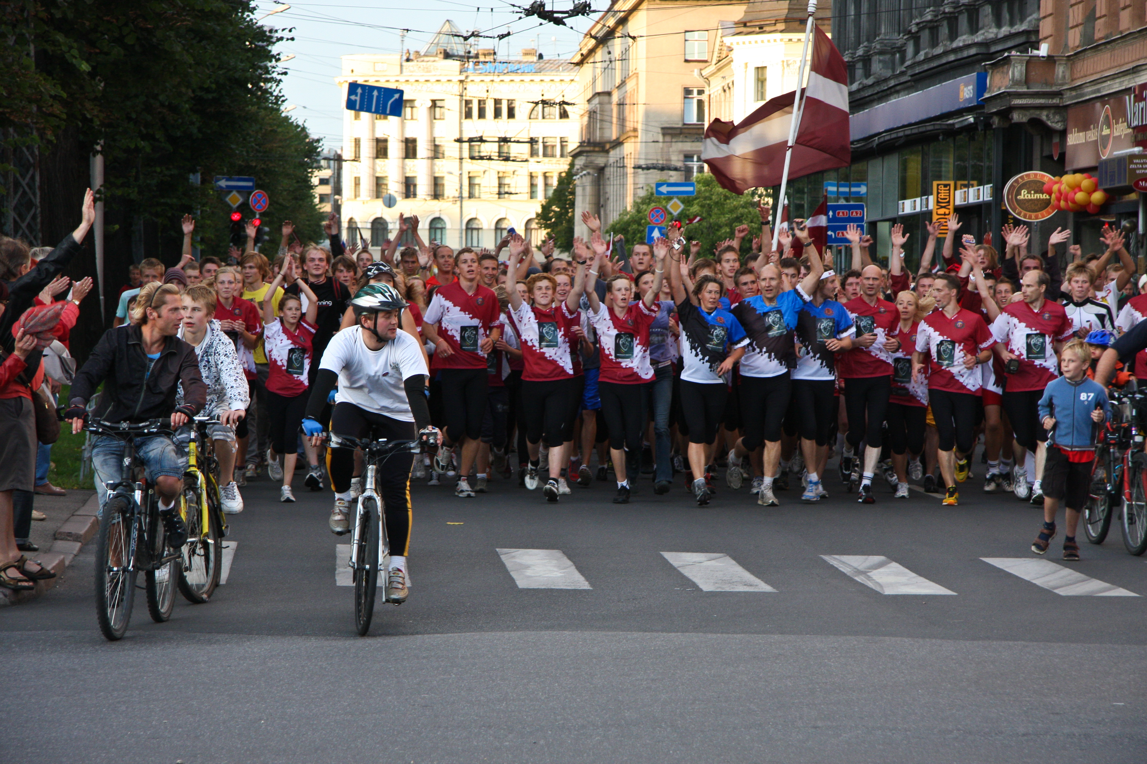 Baltic Way 20 years anniversary relay run